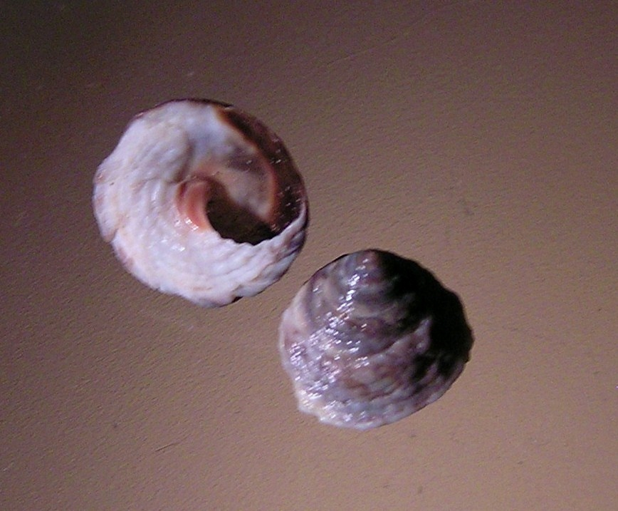 Bembicium nanum (Lamarck, 1822), a periwinkle from the family Littorinidae; Tasmania.